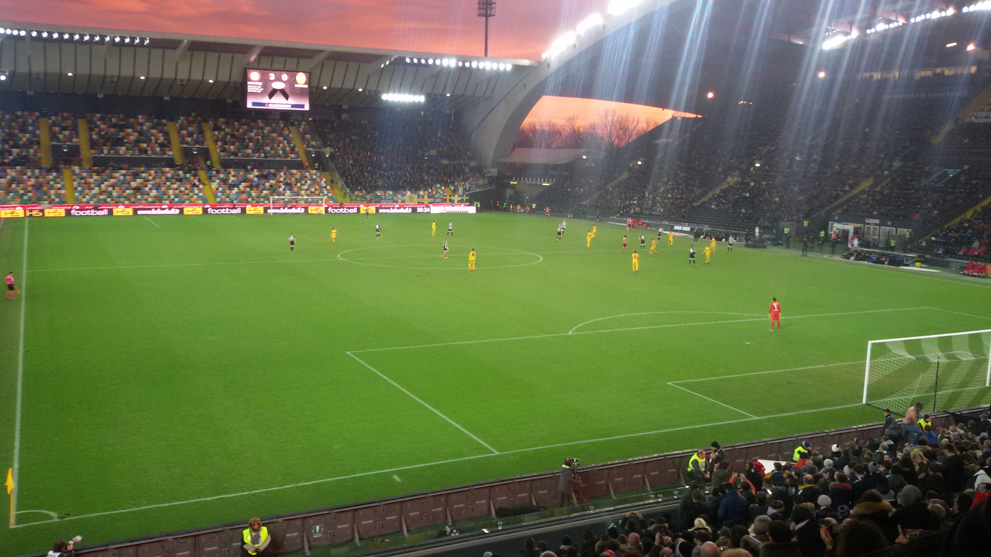 Stadio Friuli during Udinese-Hellas Verona